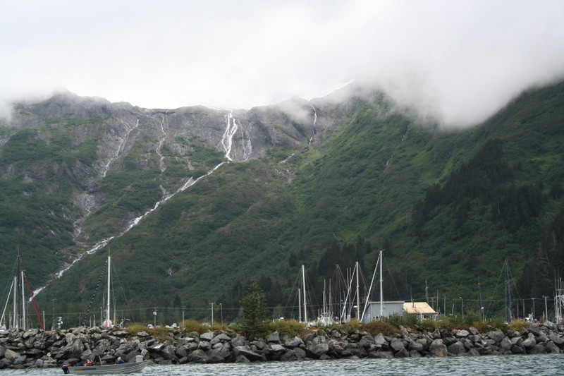 Whittier Harbor, Prince William Sound, Alaska